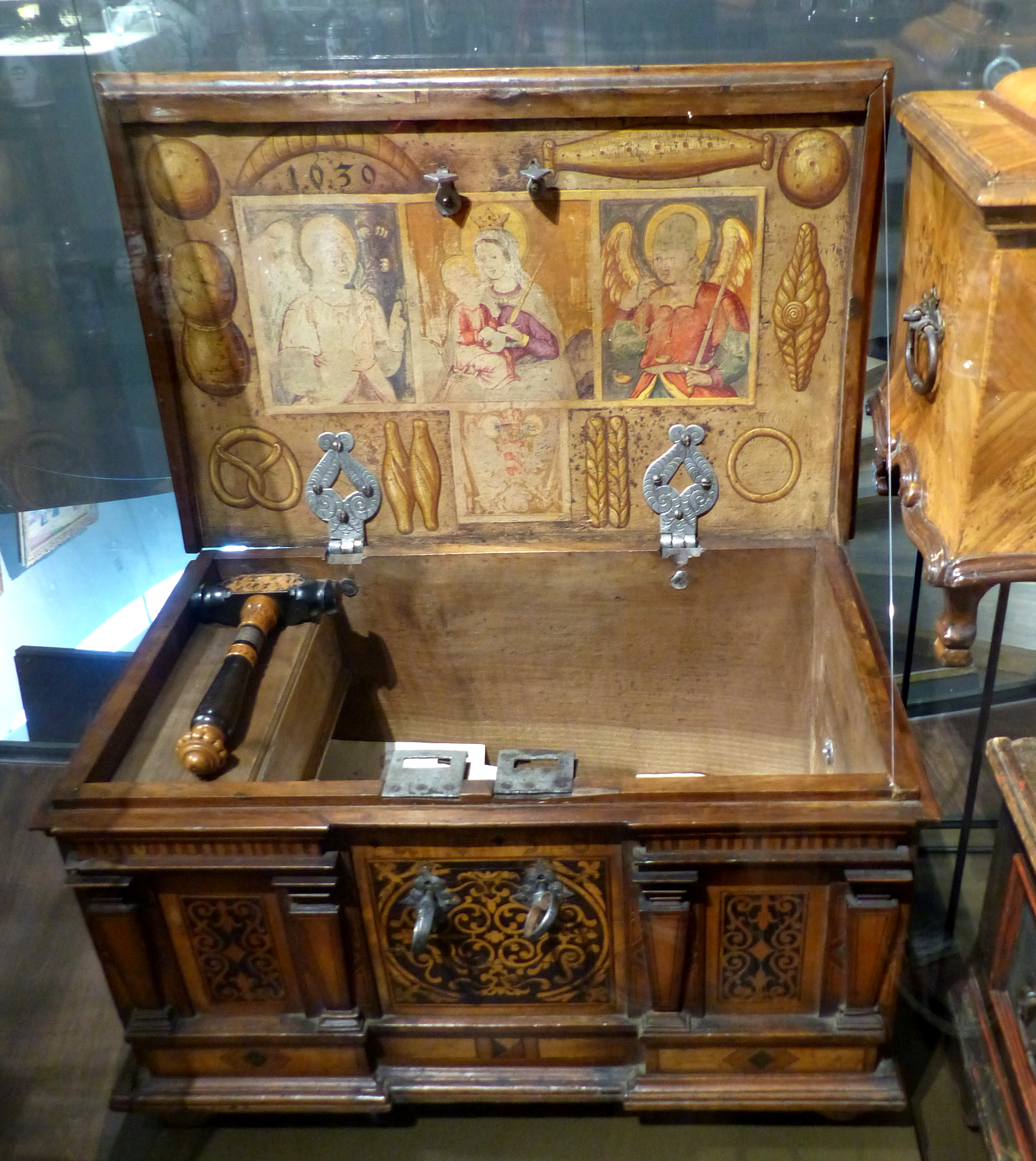 Asten ( Upper Austria ). Paneum ( Bread museum ) - Chest of a baker's guild ( 1639 )